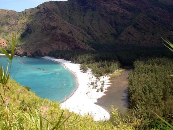 San Antonio, Zambales[1] is a 2nd class municipality in the province of Zambales in the Philippines. According to the latest Philippine census, it has a population of 34,217 people in 6,483 households in an area of 18,812 hectares. As of 2010, it has 17,539 registered voters.[2]Barangay Pundaquit (Pundakit) is a fishing village located in San Antonio, Zambales. Camara Island Capones Island Anawangin Cove Nagsasa Cove Public Market[3][4]Land Area: 188.12 km² ZIP Code: 2206 Coordinates: 14°51'27"N 120°6'42"E